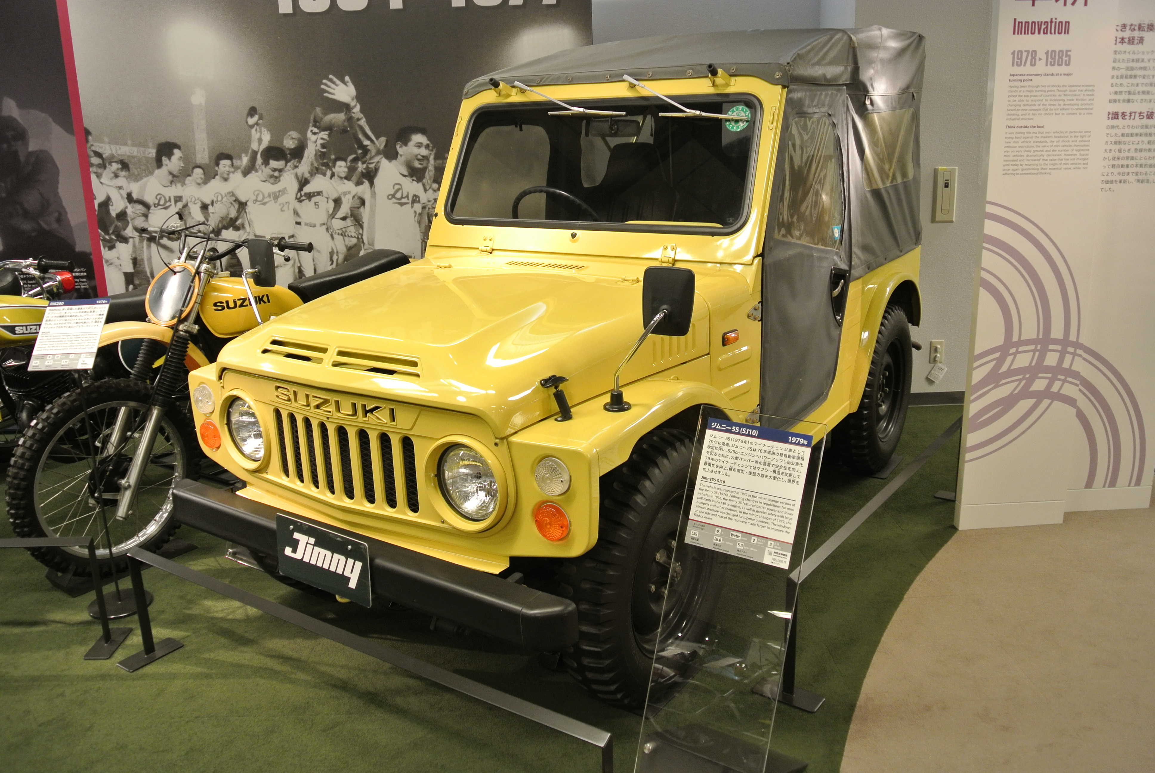 1979 Suzuki Jimny55 in the Suzuki History Museum.